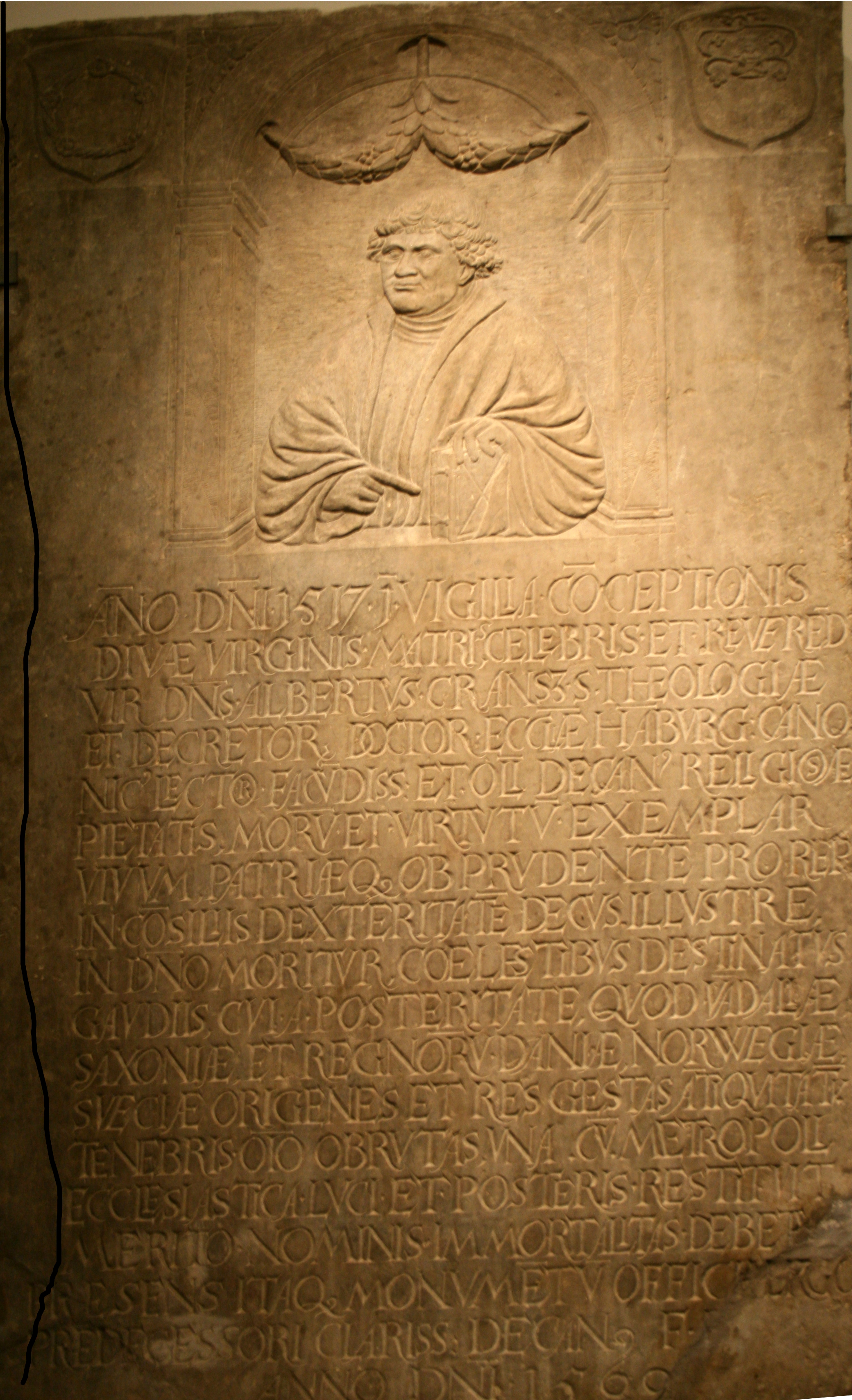 Epitaph of Albert Krantz (* ~ 1448 in Hamburg; † 7. Dezember 1517 in Hamburg), historian and syndic of Hamburg